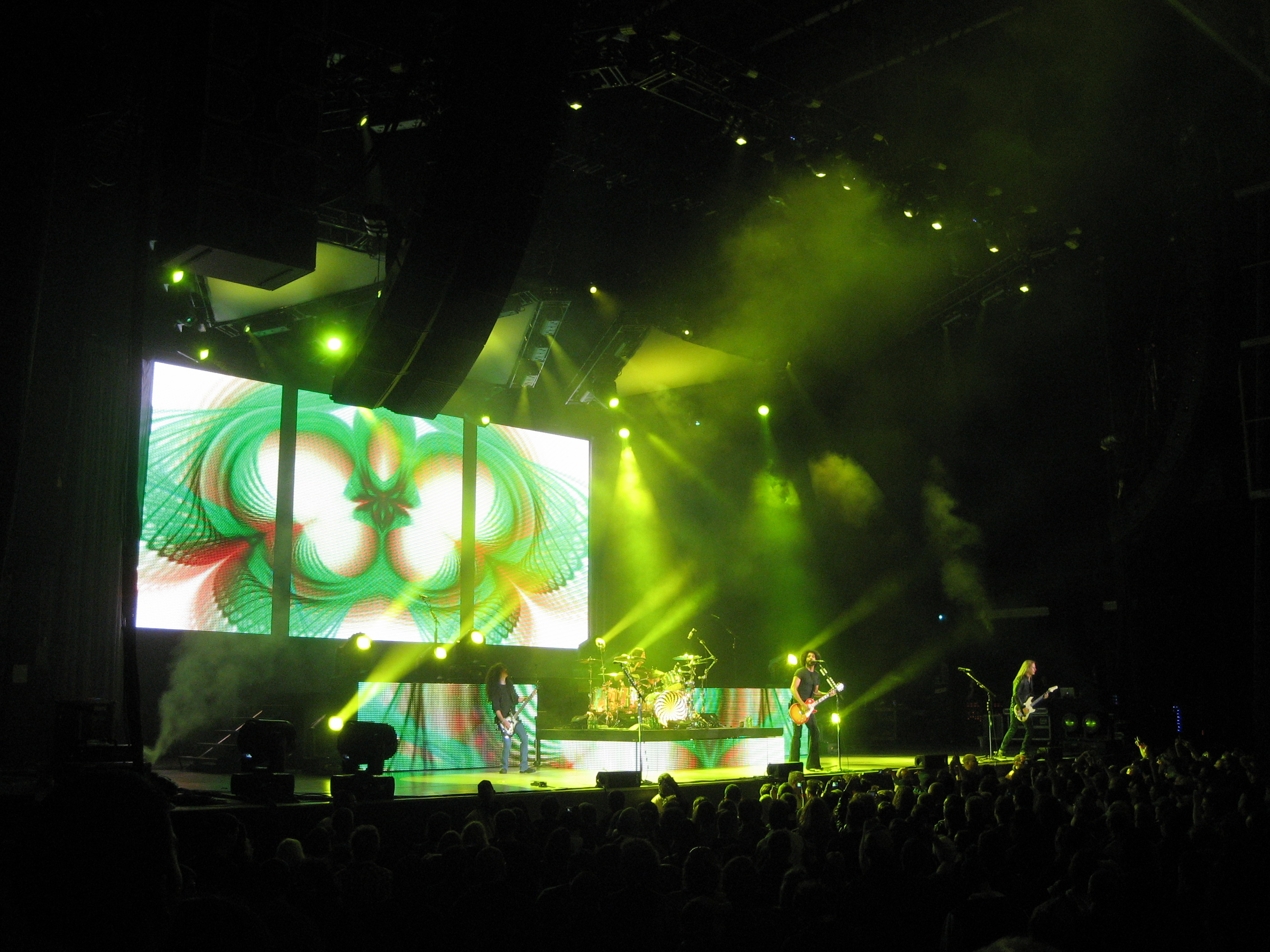 Alice in Chains in Molson Amphitheatre in Toronto, Ontario, 2010